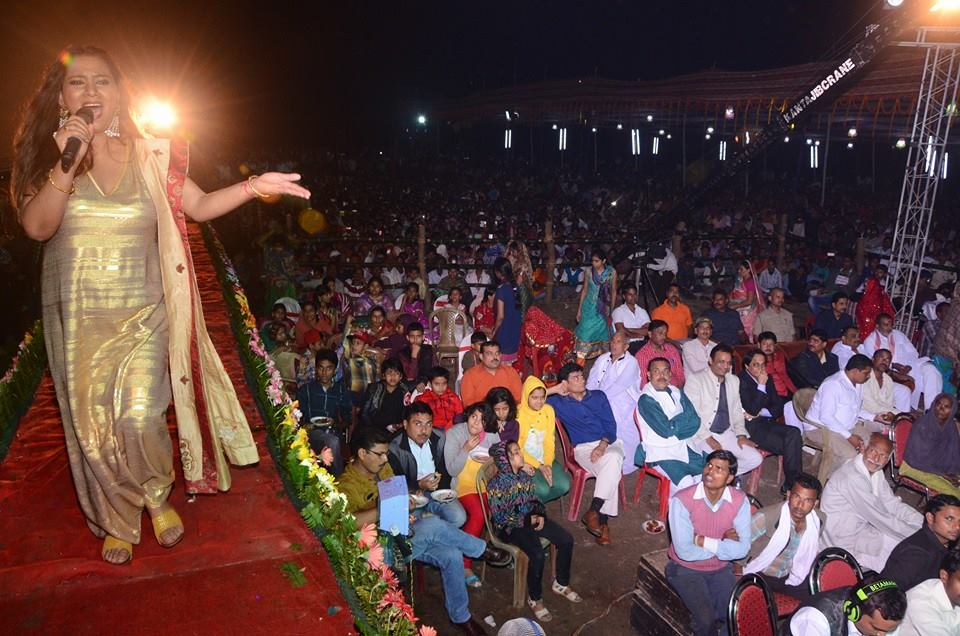 program